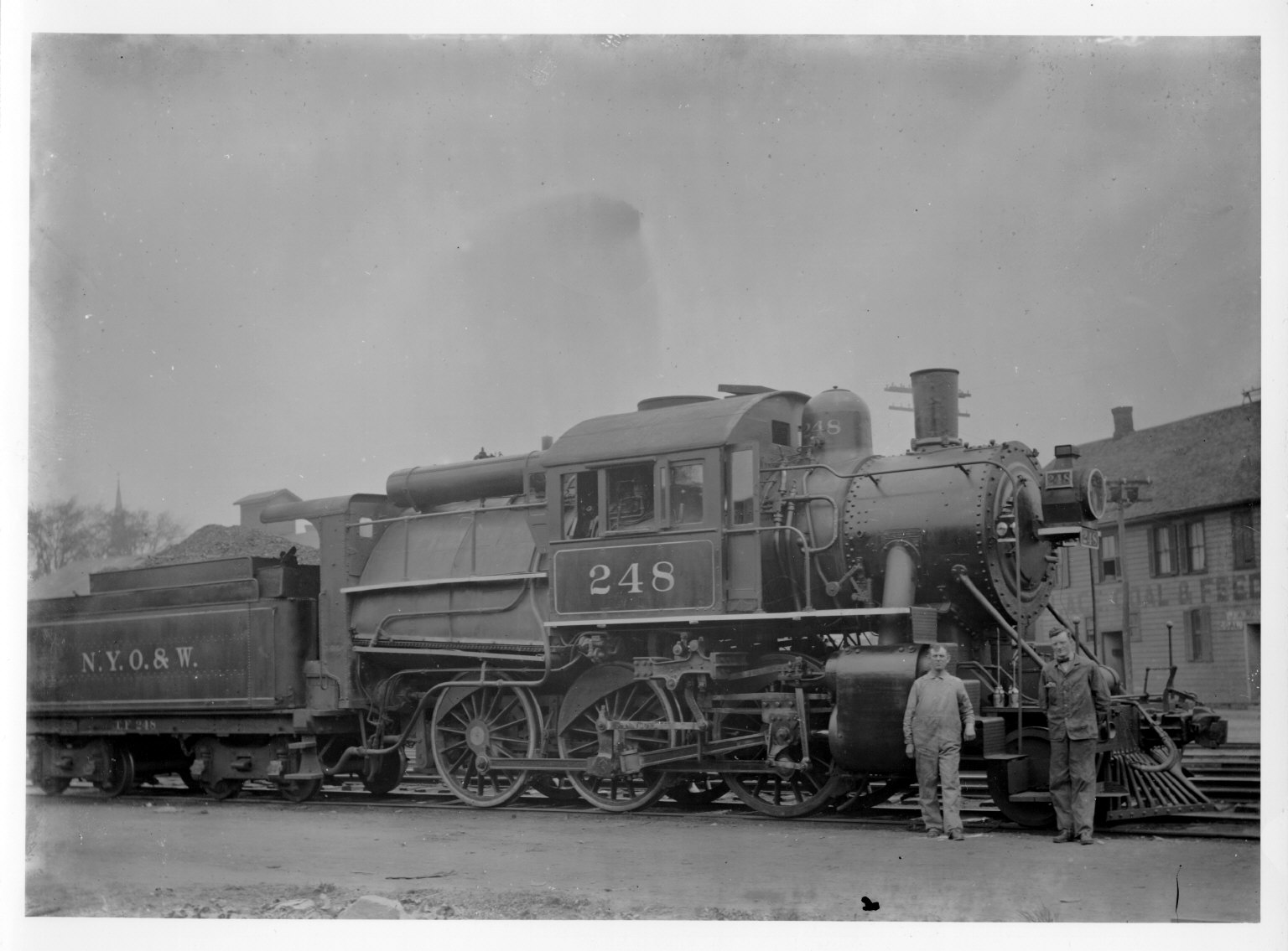 Collection: De Forest Douglas Diver Railroad Photographs, ca. 1870 - 1948, Cornell University Library Title: O&W Engine #248 Place: New York (State) Medium: Gelatin silver print Notes: Engineer - Chester Vandermark ; Fire - Ed Stossel Provenance: Diver, De Forest Douglas, 1878-1958, Collector Finding Aid: Location: 1948/Box 1/Folder 18/248 RMC ID: RMC2004_1018 Persistent URI: There are no known U.S. copyright restrictions on this image. The digital file is owned by the Cornell University Library which is making it freely available with the request that, when possible, the Library be credited as its source. We had some help with the geocoding from Web Services by Yahoo!